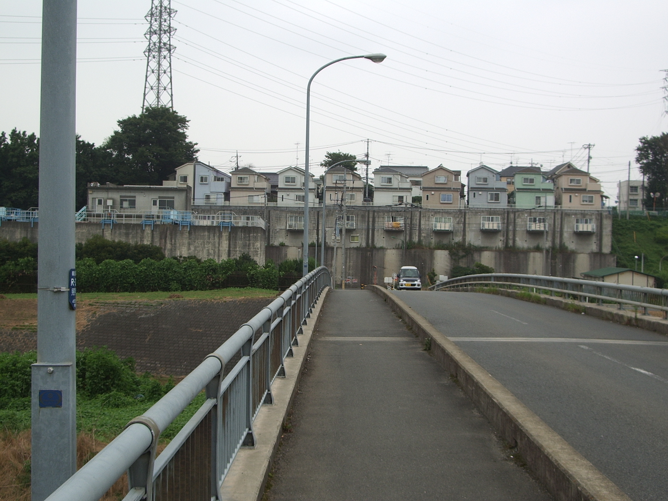 Musashinodaichi, Asaka, Saitama